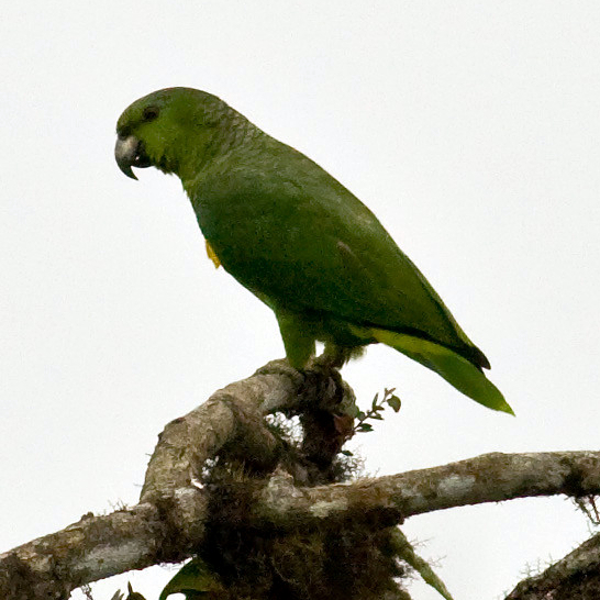 Scaly-naped Parrot in the cloud forest of the western Andes in Ecuador.